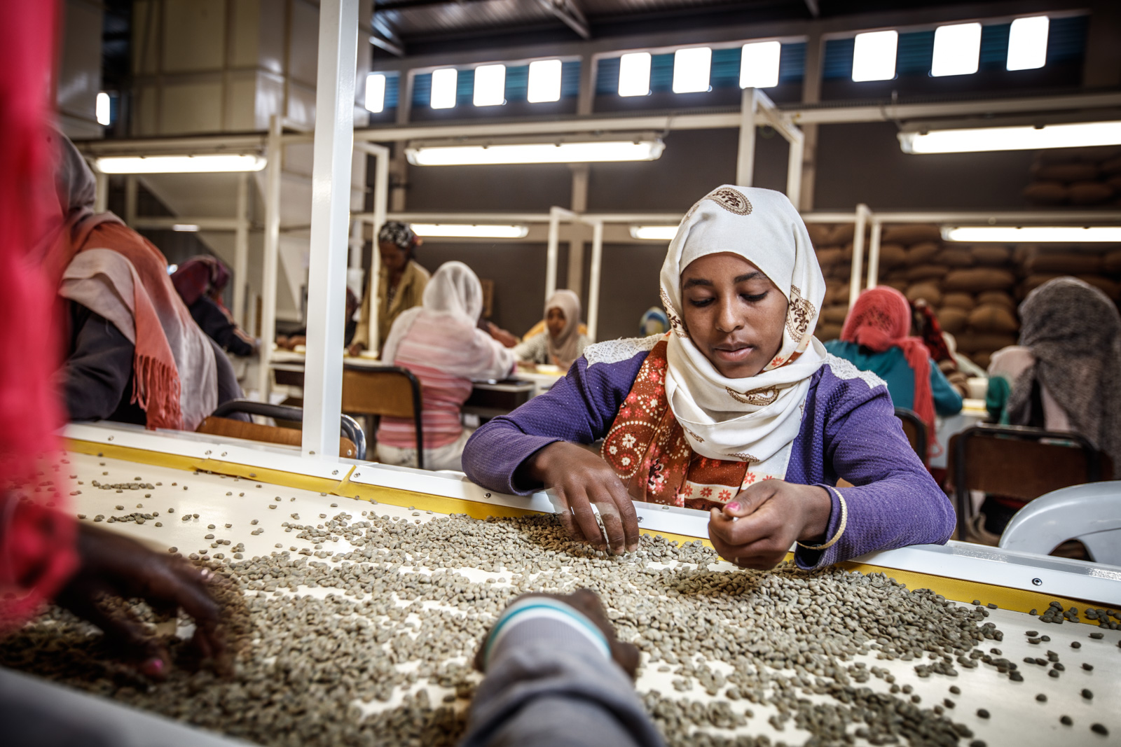 Coffee corporation, Addis Ababa This is an image of "African people at work" from Ethiopia